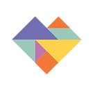 Reykjavik International School Logo